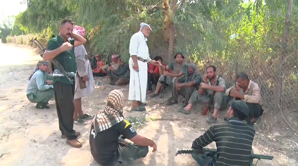 Members of a self-defense group in the village of Qaratapa in the hinterland of northeastern Iraq, where ISIL remnants continue to pose a threat to locals in 2018.